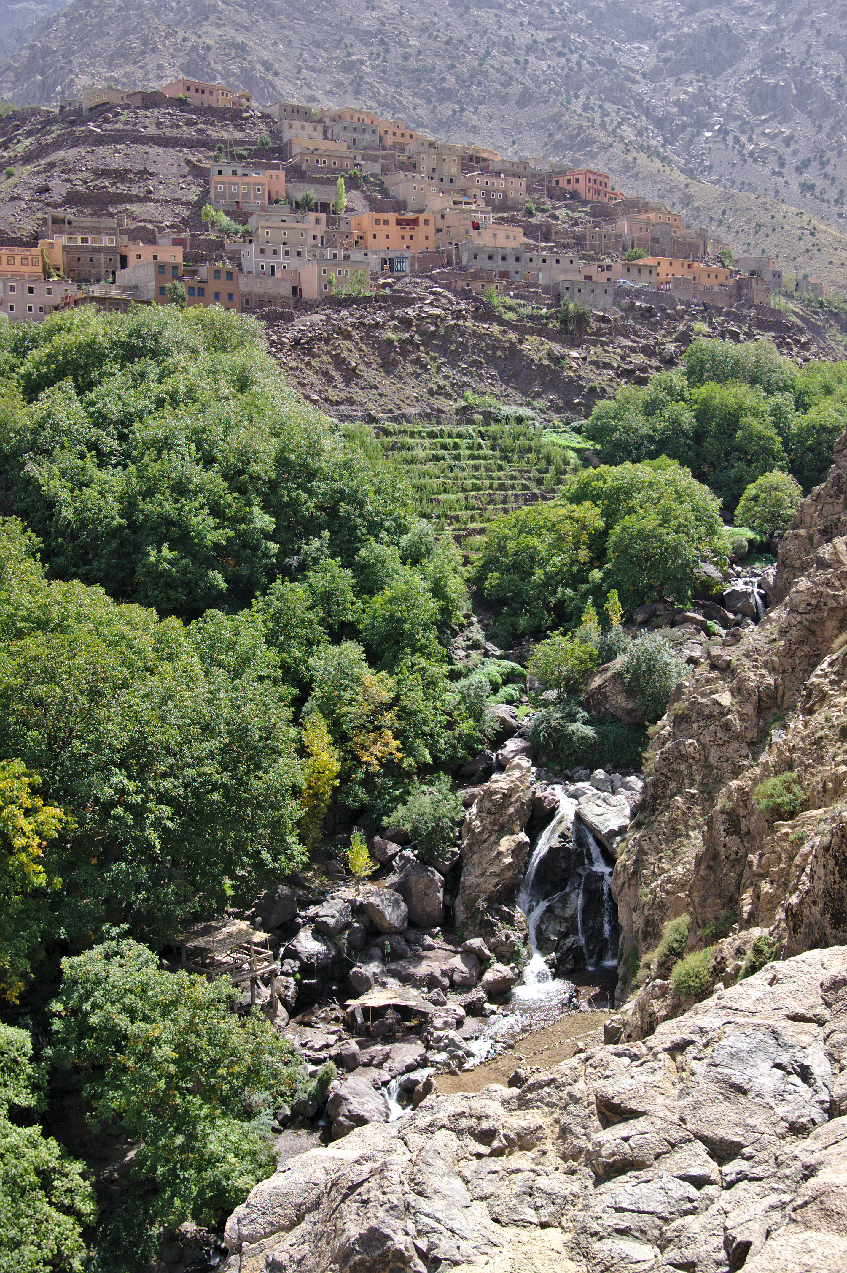 Waterfall of the Oued Rheraya River and Aroumd in the background. Imlil Valley, Toubkal National Park.